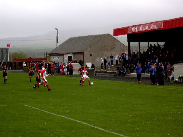 Loch Park, New Cumnock, Scotland - Football ground, home of Glenafton Athletic